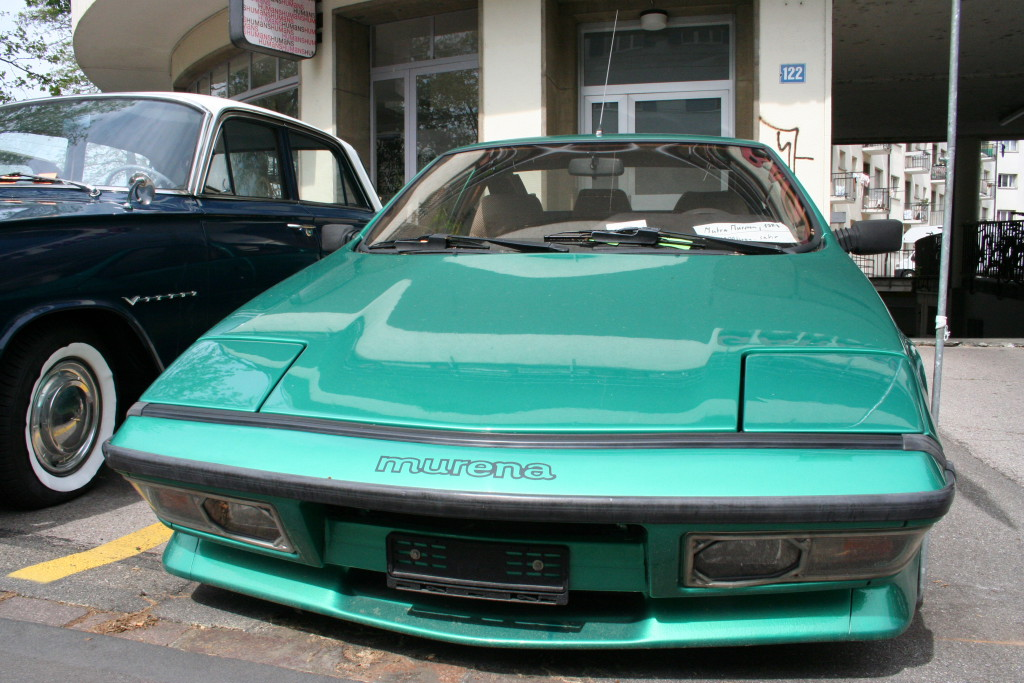 Talbot Matra